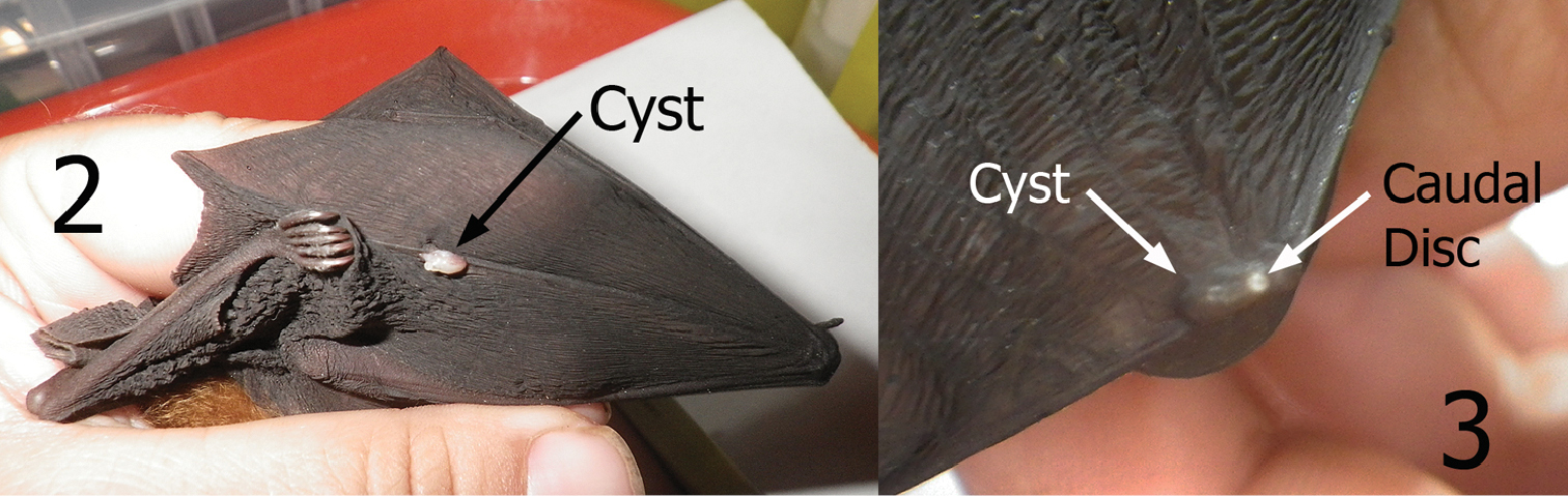 Cysts containing neosomes of Maabella stomalata 2 – Cyst located on dorsal surface directly over wing digit number five of Rhinolophus sp. (species undetermined) 3 – Cyst located on dorsal surface directly over the radius-ulna/thumb joint of Rhinolophus inops. Right arrow depicts caudal disc (spiracle breathing structure) protruding through the skin